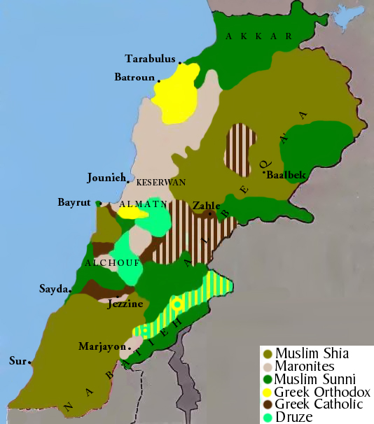 Created by the uploader.